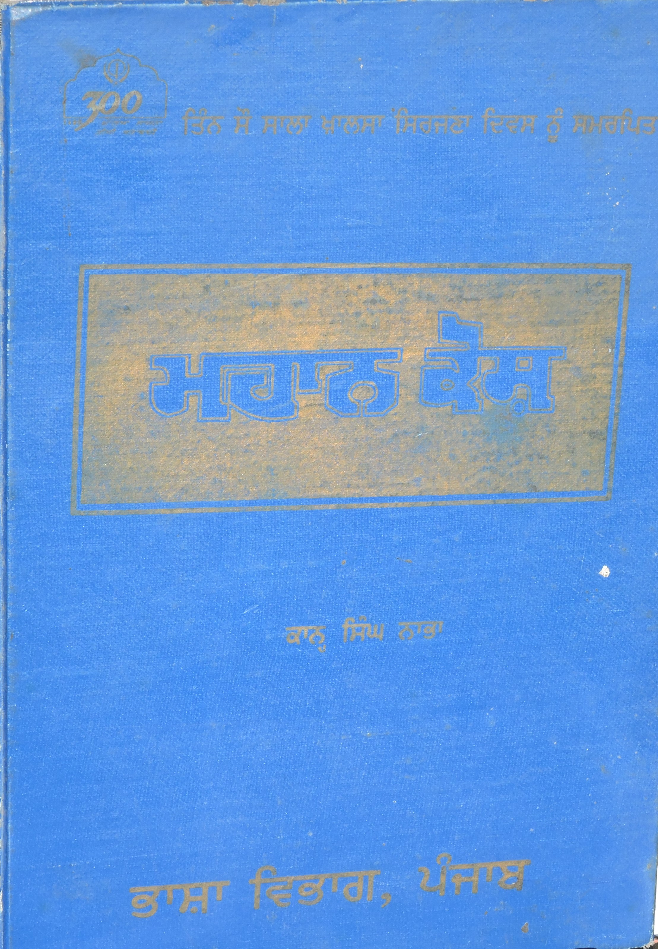 Mahan Kosh,The first Encyclopaedia of Sikhism prepared by Bhai Kahn Singh Nabha